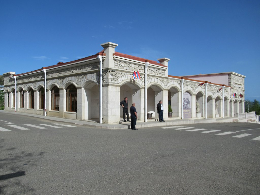 The State Museum of Visual Arts in Shushi, Republic of Nagorno Karabakh, displays paintings and hosts cultural events. A sculpture garden is behind the museum.